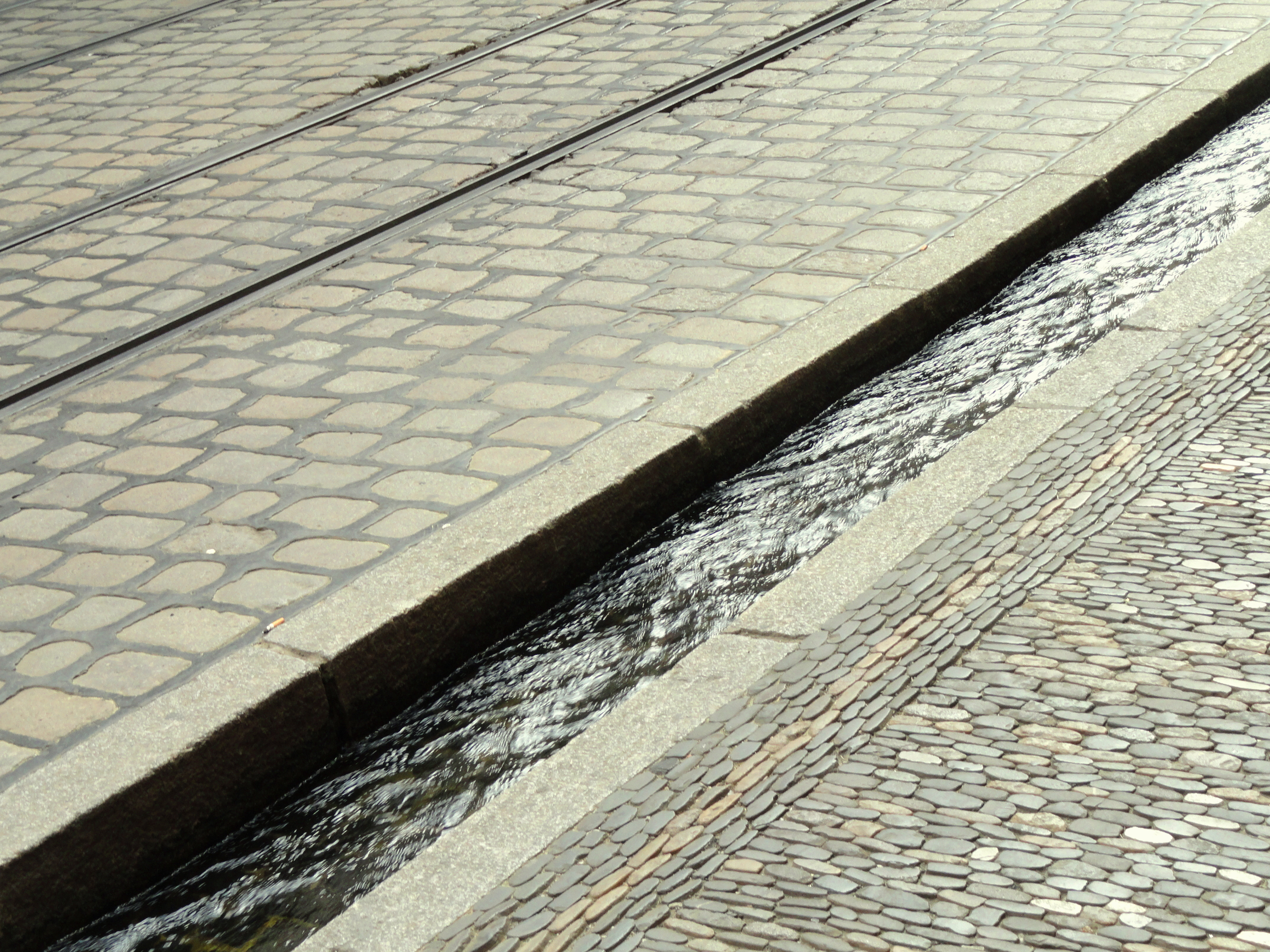 Street detail, Freiburg im Breisgau, Baden-Württemberg, Germany.